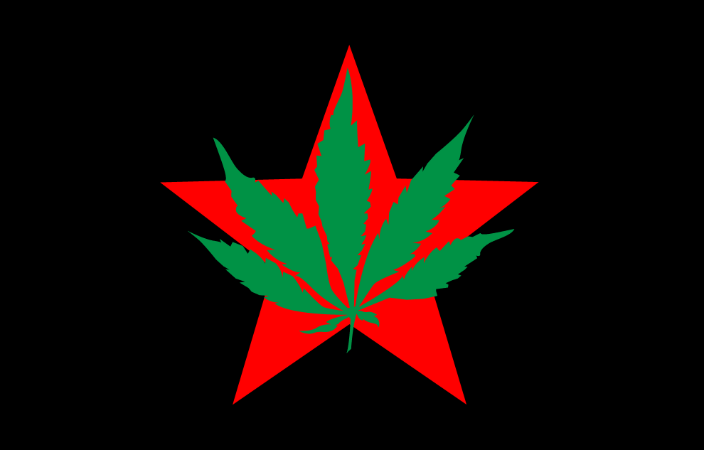 Yippie Flag, the flag of the Youth International Party. Also known as the Yip Flag.